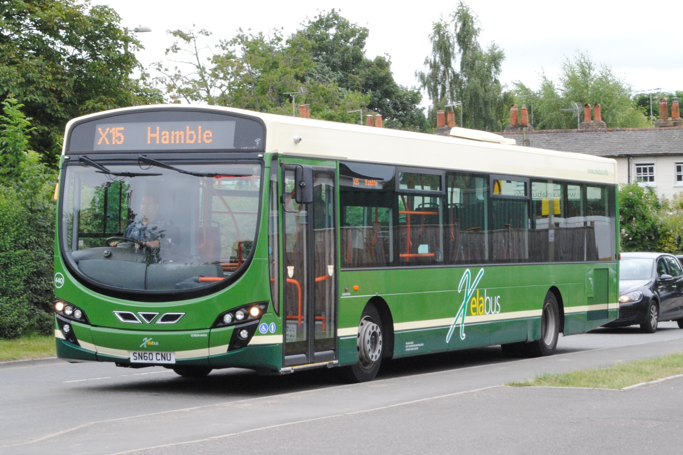 440 - SN60 CNU Volvo B7RLE Wright ex Docherty of Auchterarder. seen arriving at Alton Bus Rally 2017.